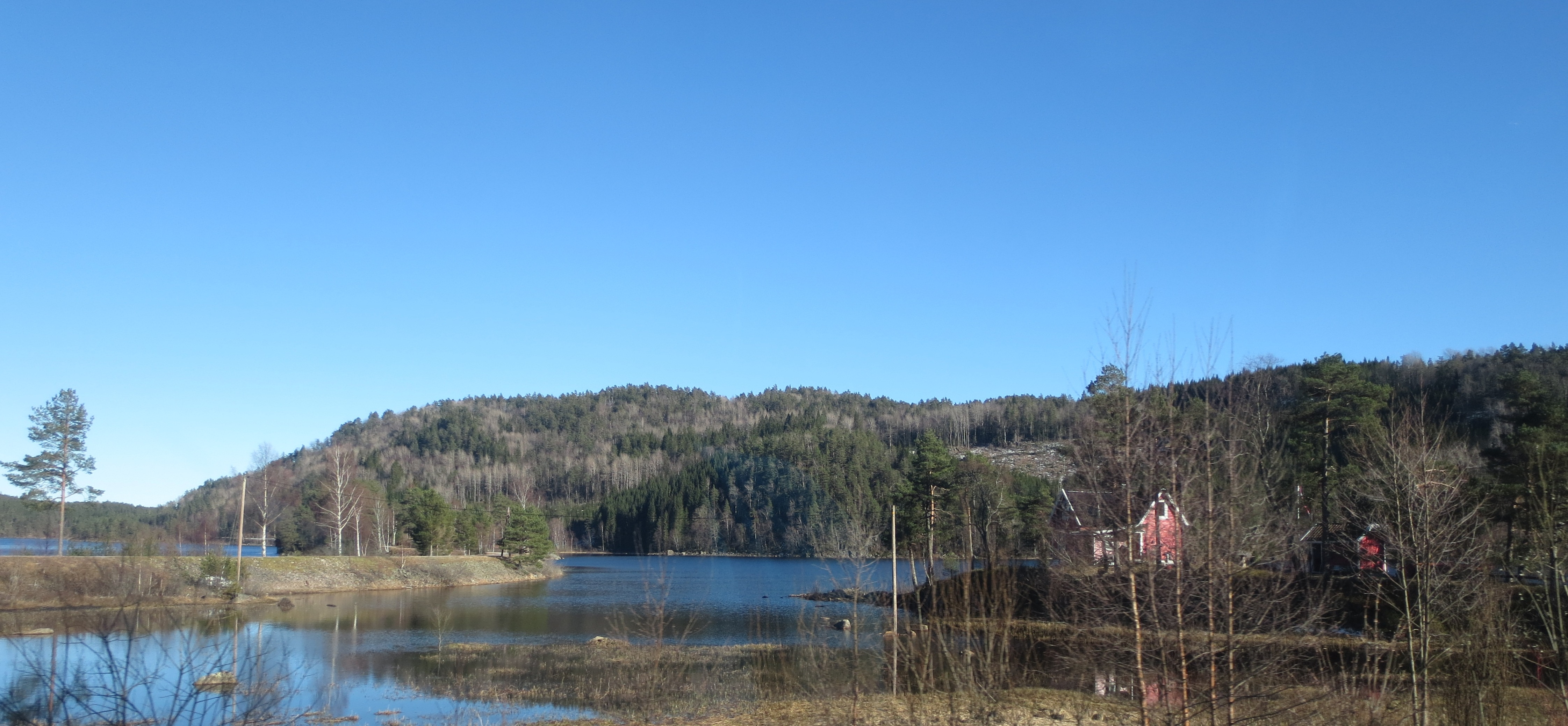 Image from along the RV 9 national road in western Vennesla municipality, Vest-Agder county, south Norway